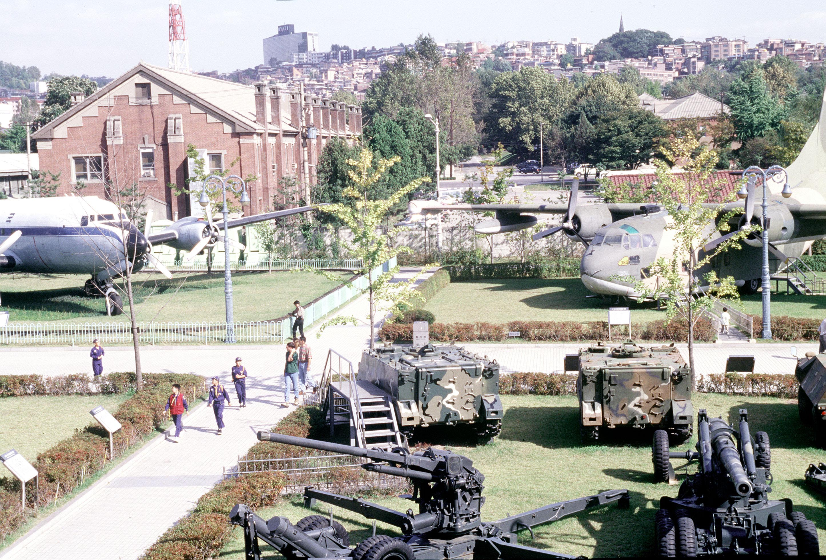 Adjacent to U. S. Army Garrison Yongsan, Seoul, Republic of Korea, the Korean War Museum attracts service members and civilians alike, Oct. 5, 1998. On the display in the back of the museum is armored personnel carriers and artillery pieces. (U.S. Air Force photo by SrA Nicole Thurston) (Released)